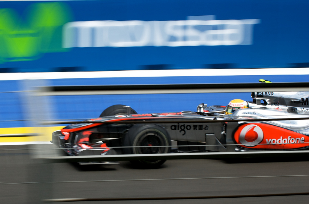 Lewis Hamilton driving for McLaren at the 2010 European Grand Prix.